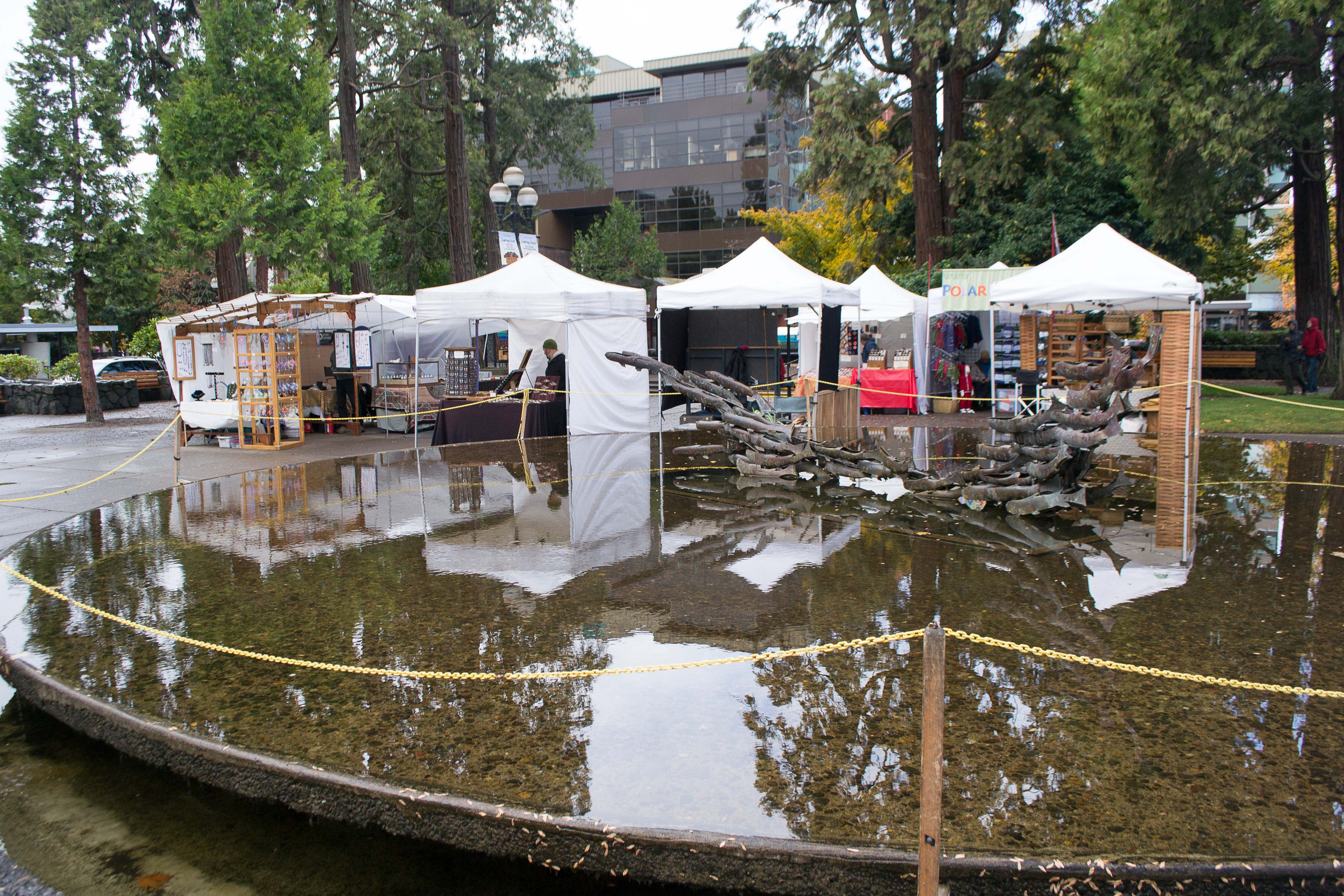 A rainy day at the Eugene Saturday Market